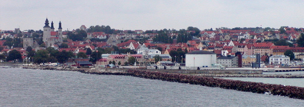 Panorama of Visby, Sweden.